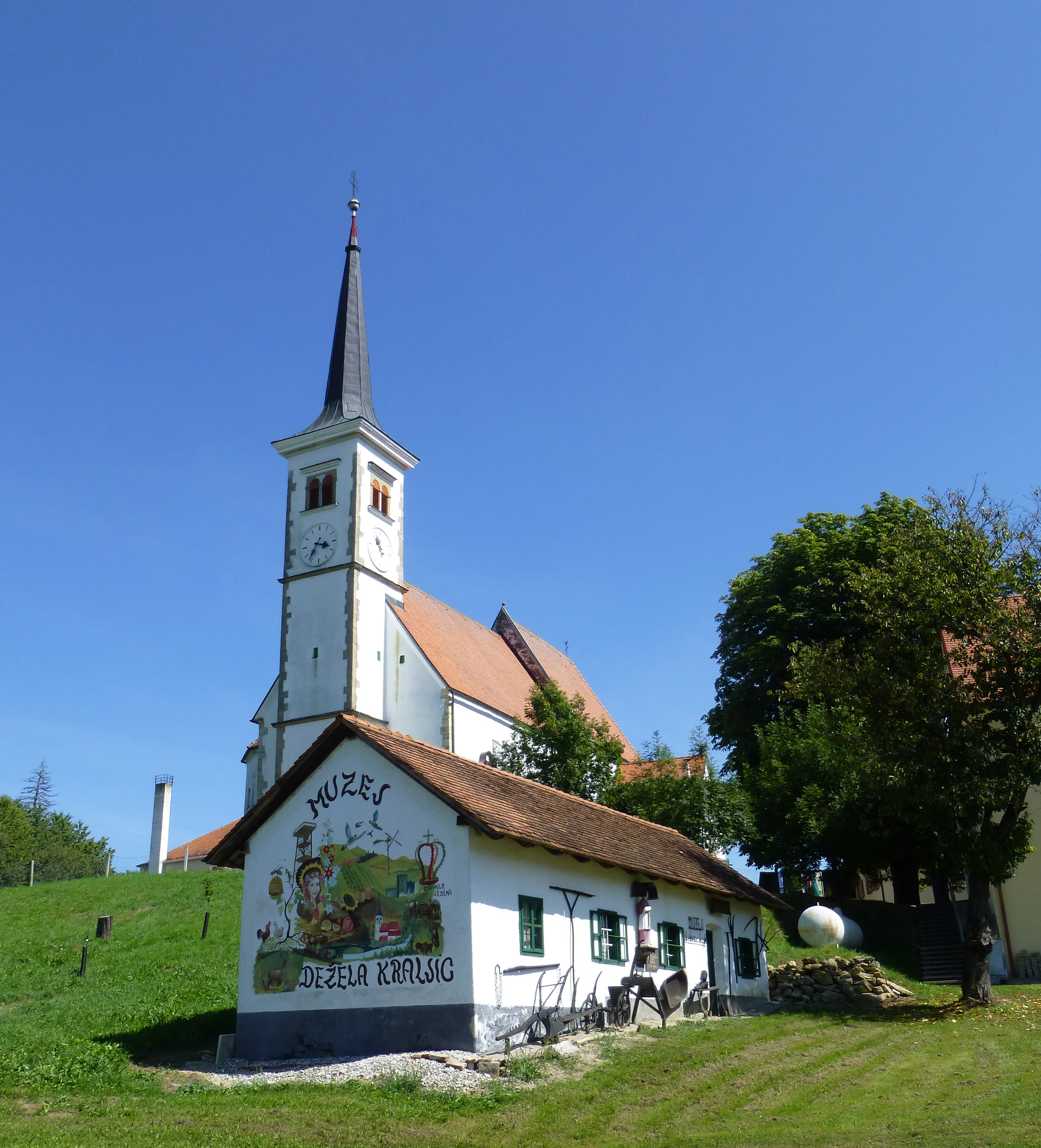 Church and Museum of the Automn, Municipality of Juršinci near Ptuj, Podravska (Drava Region).